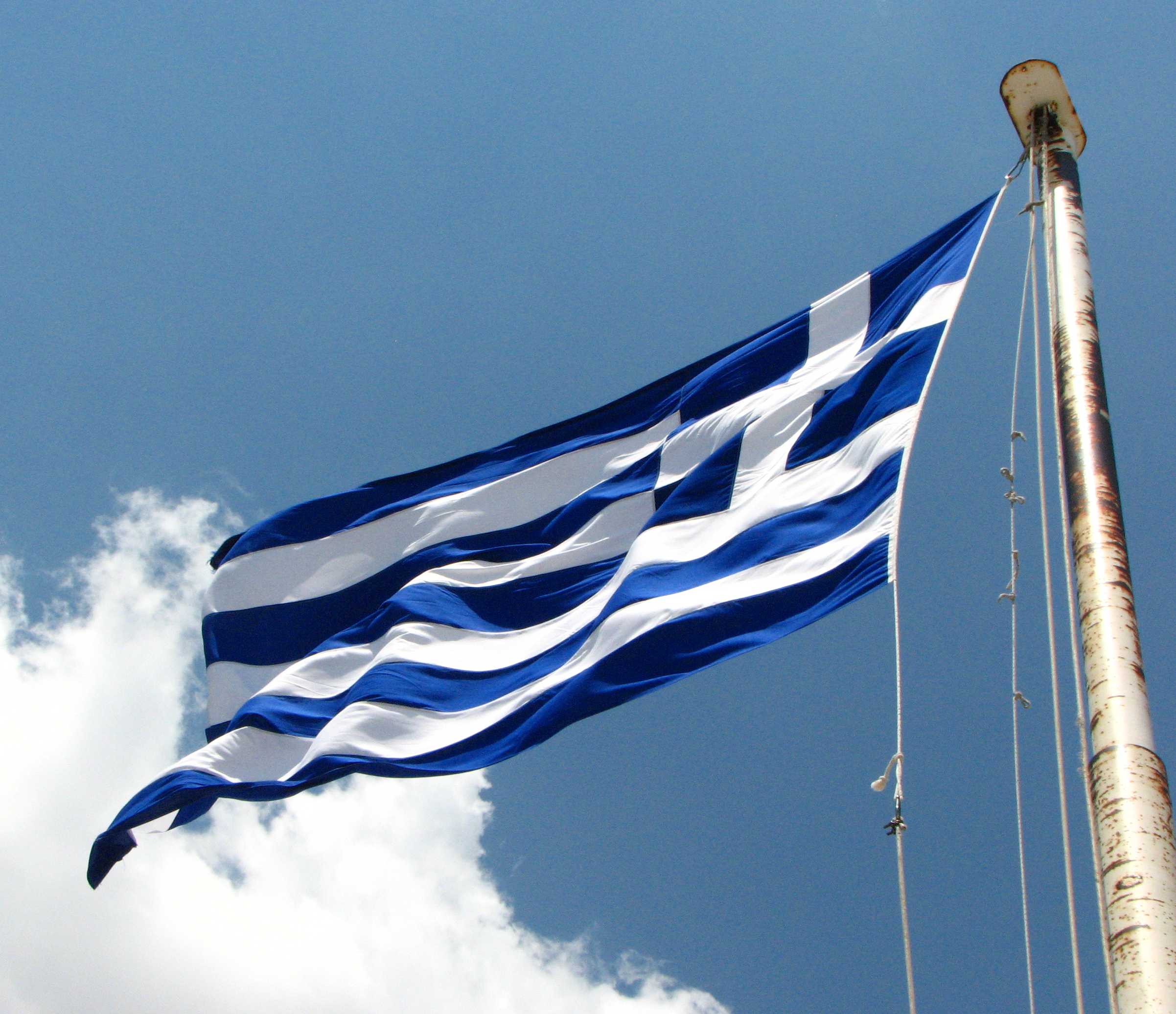 A Greek flag waving.